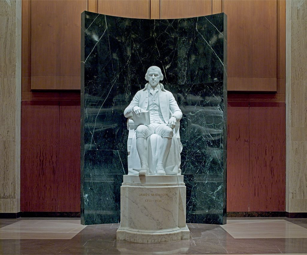 Photograph of "Statue of James Madison," Madison Building, Library of Congress (1976), Walker Hancock, sculptor.